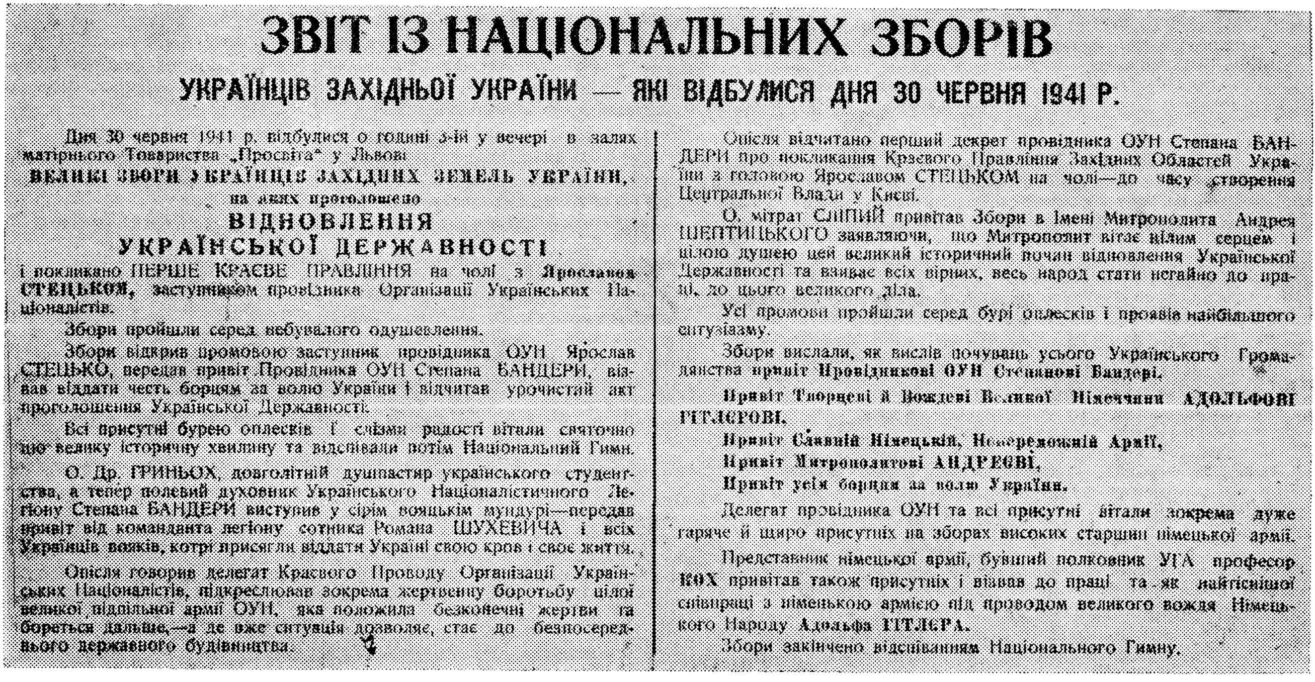 The report of the National Assembly in Lviv June 30, 1941. "Zborivski Visti", July 31, 1941